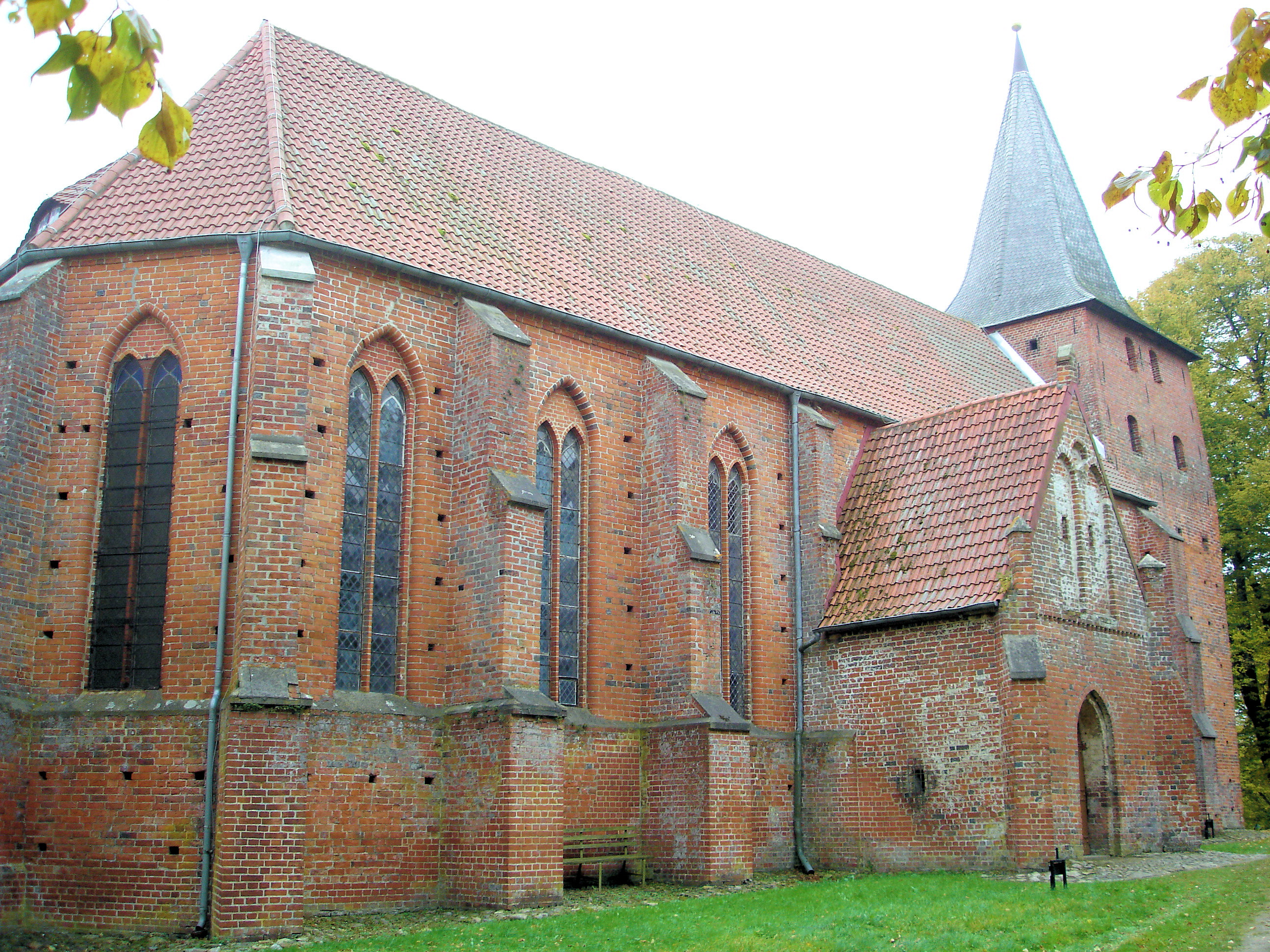 Church in Gressow, Mecklenburg, Germany